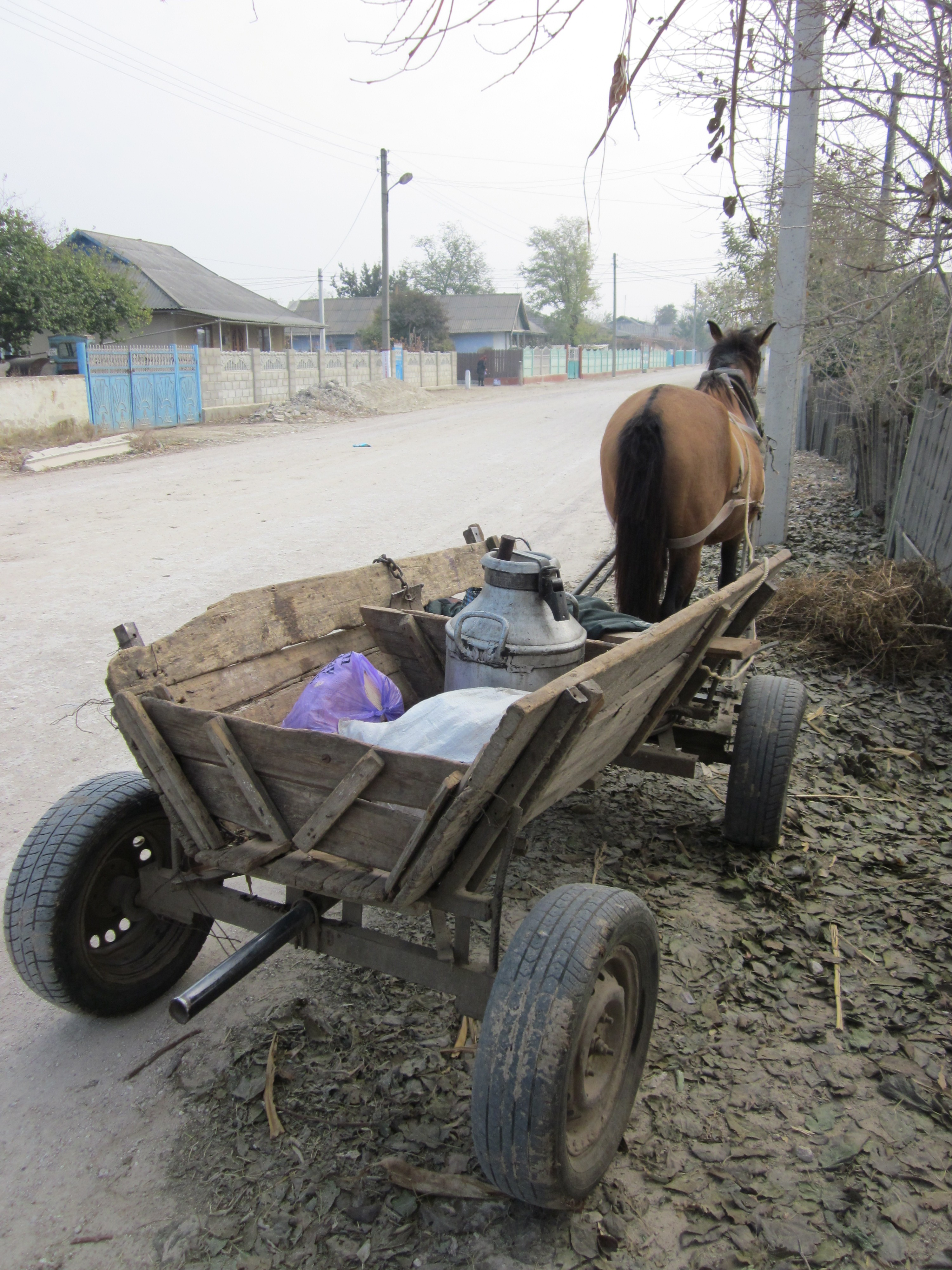 Horse and carriage in the small village of Dancu (Moldova)